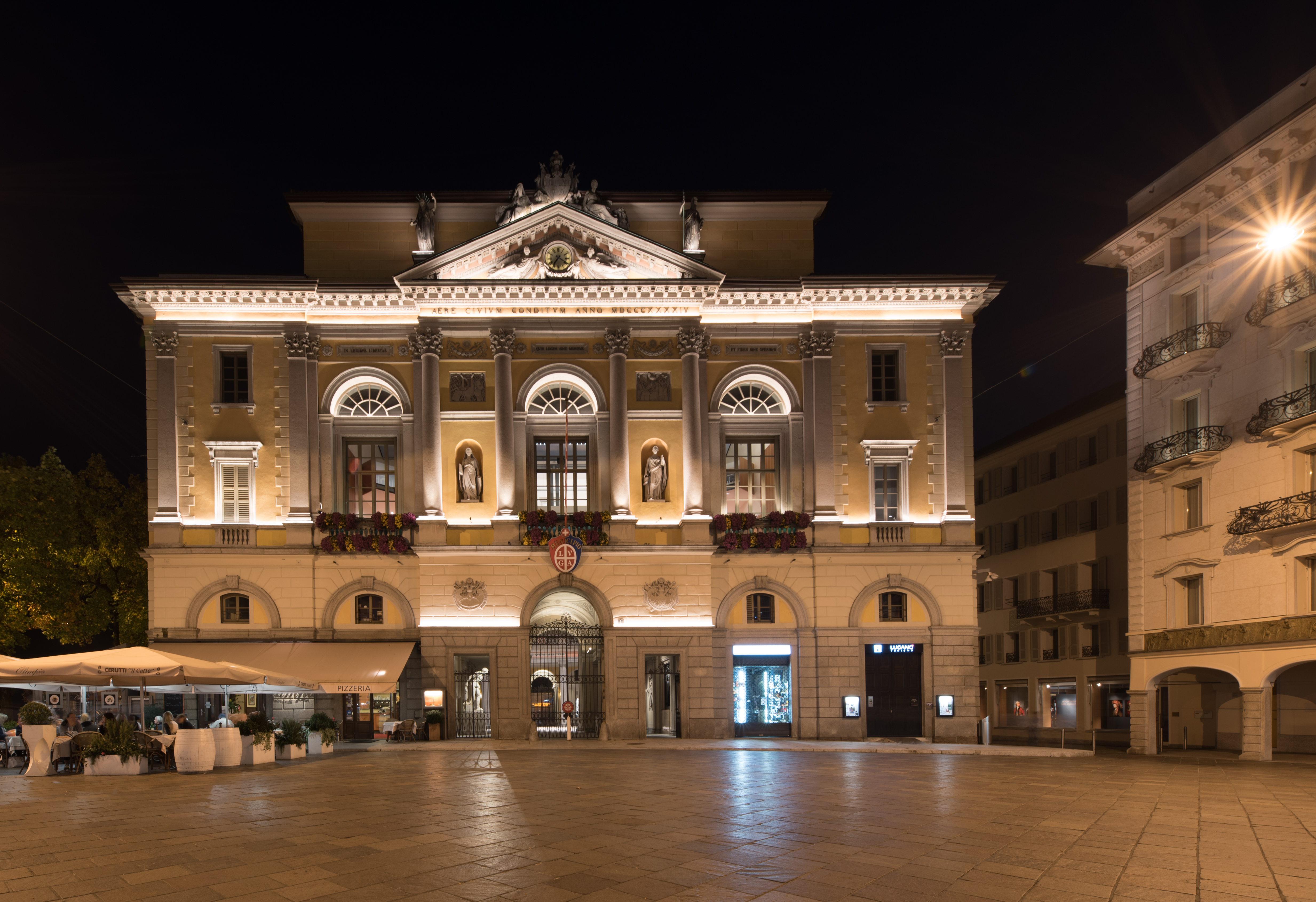 Town Hall Lugano